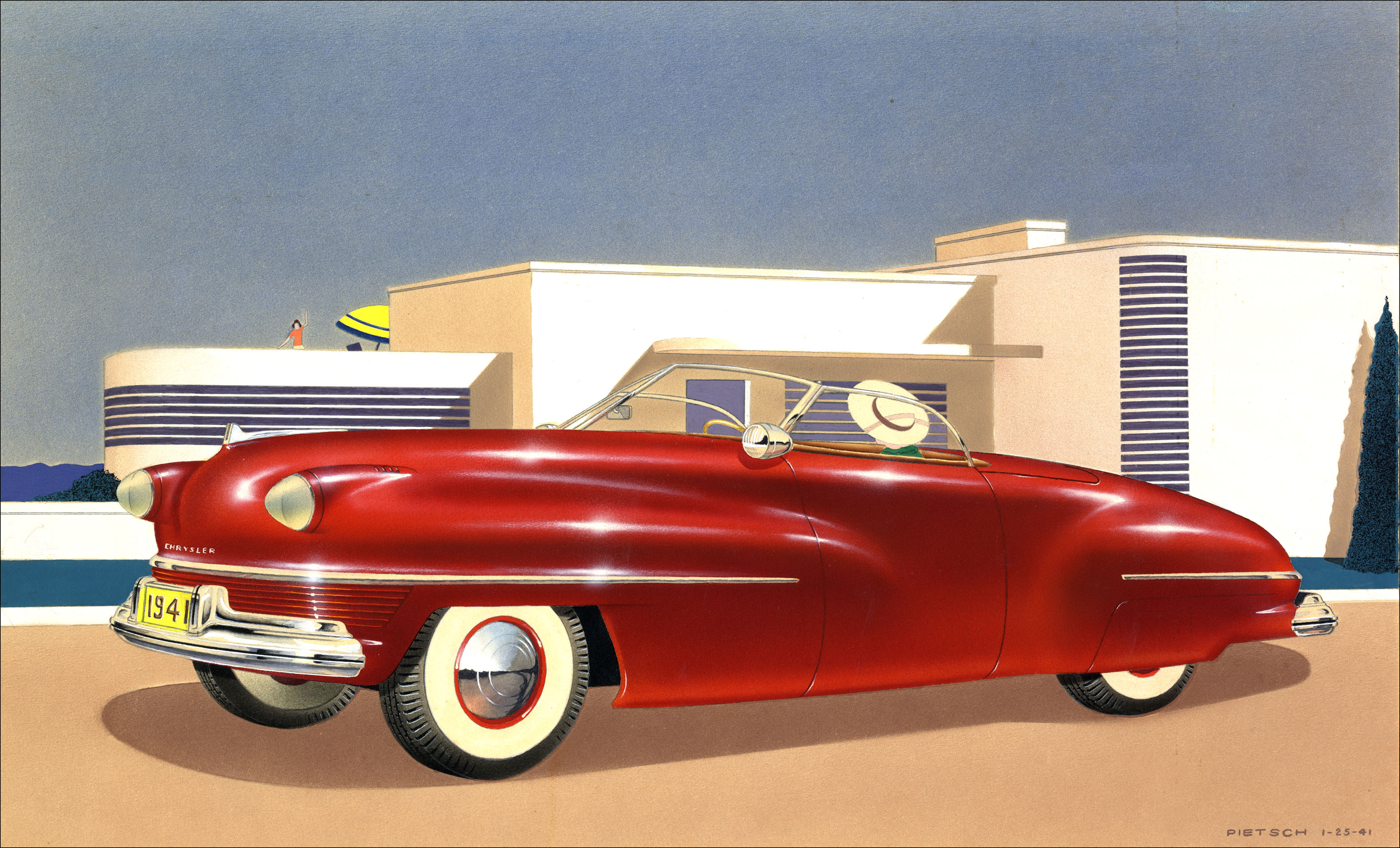 The original drawing has been donated to the Museum of Fine Arts, Boston, but the image posted here was made by me, T. W. Pietsch III. Please see the correspondence below from Jennifer C. Riley, Head of Image Licensing and Digital Archives Museum of Fine Arts, Boston. You may tell them that while the Museum of Fine Arts, Boston owns the artwork; we do not retain the copyright to Theodore Wells Pietsch II’s images. Best, Jennifer Jennifer Riley Head of Image Licensing and Digital Archives Museum of Fine Arts, Boston | 617-369-3777 Dear Mr. Pietsch, Regarding copyright, you retain copyright to any photos you took of the drawings made by your father. The copyright to the artworks and photographs does not revert to the Museum automatically upon donation of the works. The copyright to the photographs that you took stays with you so you have every right to upload those photos to Wikipedia. I am happy to provide you with language necessary for you to pass on to Wikipedia so you can reload the images. Since the Museum does not, in fact, hold the copyright to those photos, we cannot upload them. Best, Jennifer Jennifer Riley Head of Image Licensing and Digital Archives Museum of Fine Arts, Boston | 617-369-3777